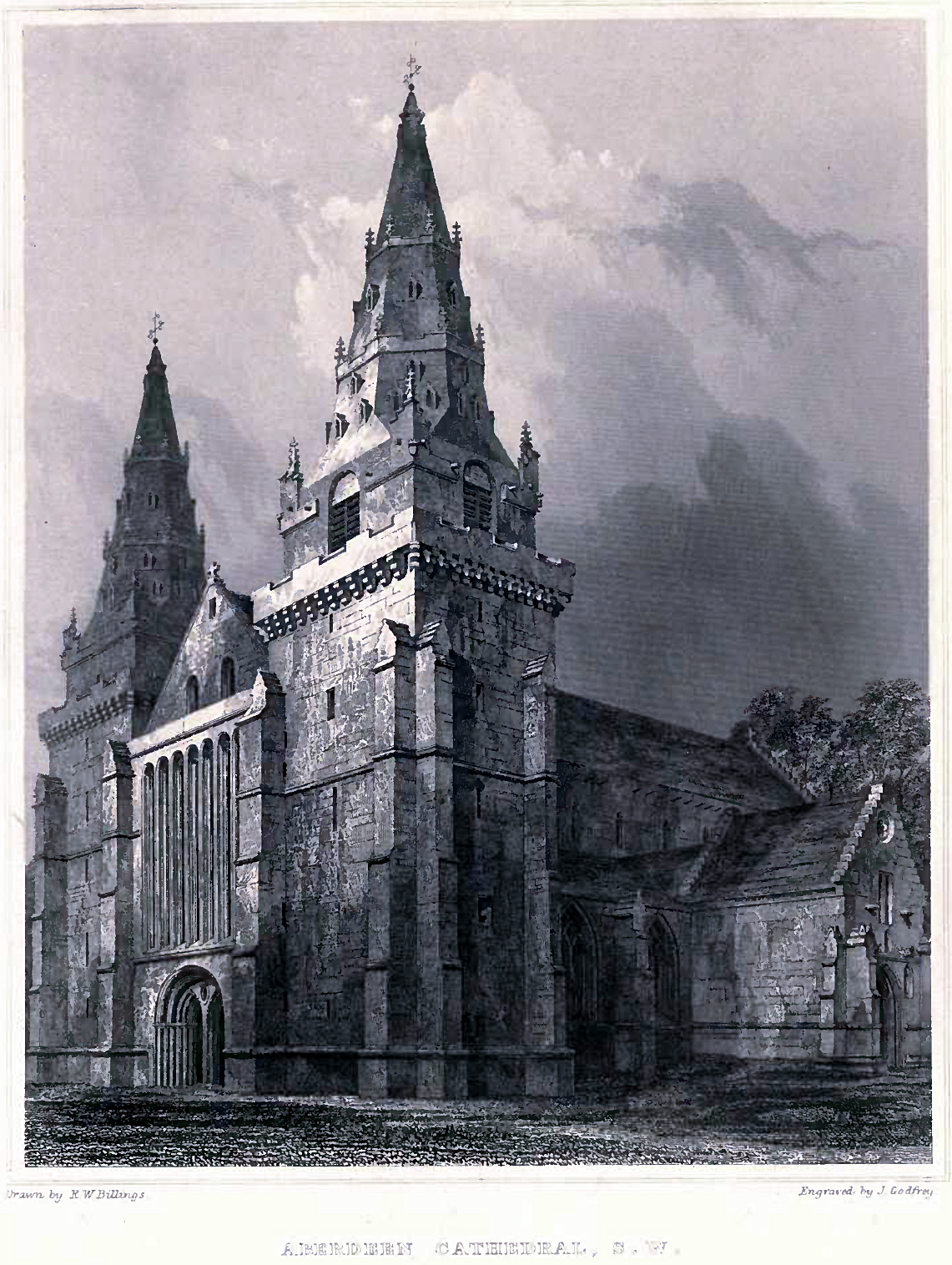 St Machar cathedral in Aberdeen, Scotland.